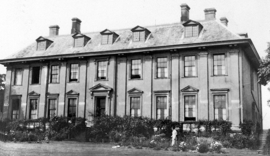 South side of Cowick Hall, circa 1900 date QS:P,+1900-00-00T00:00:00Z/9,P1480,Q5727902, East Cowick, East Riding of Yorkshire, England.